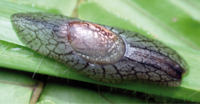 Photo of Amphibulima pardalina.